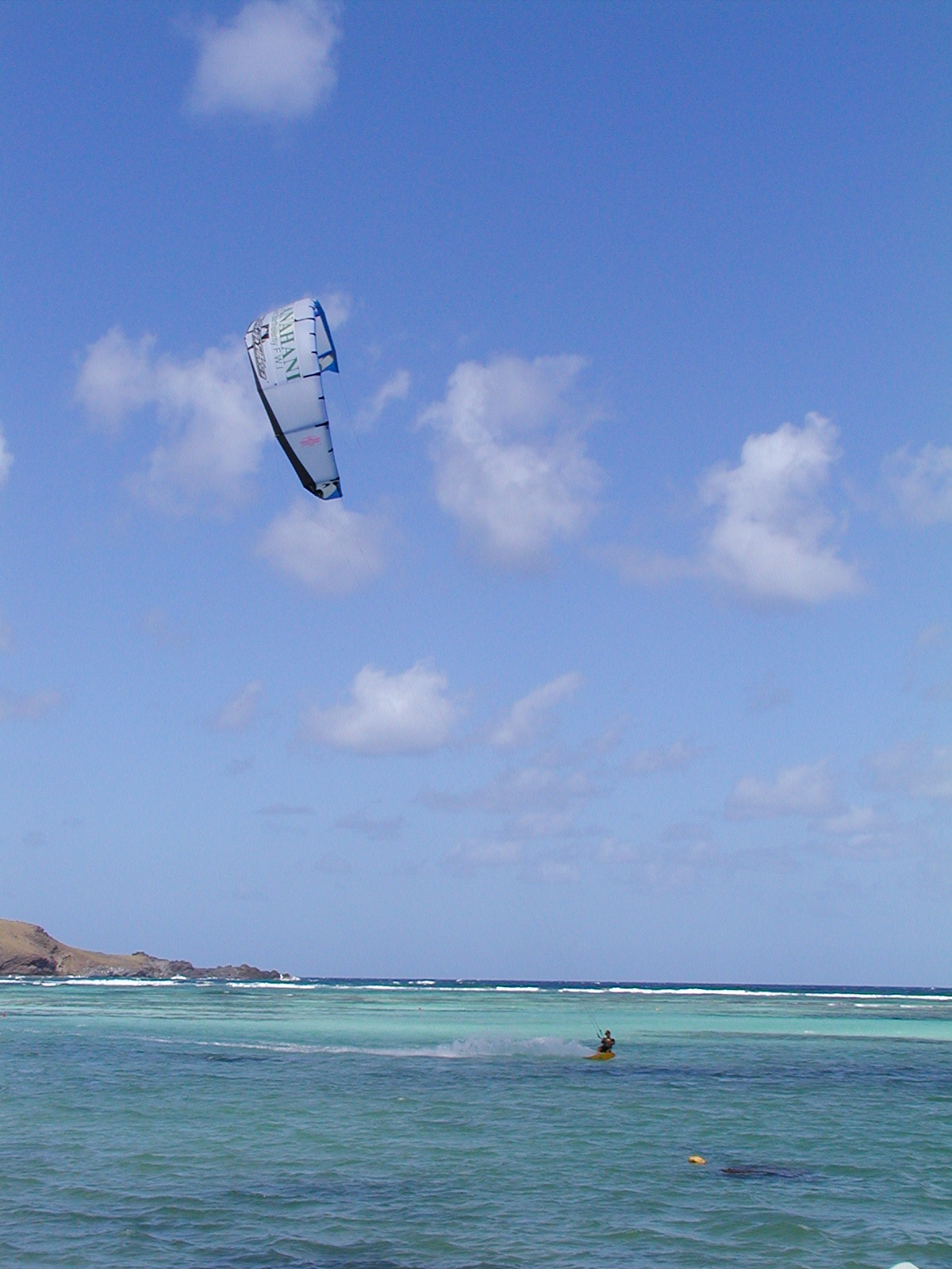 St. Barts